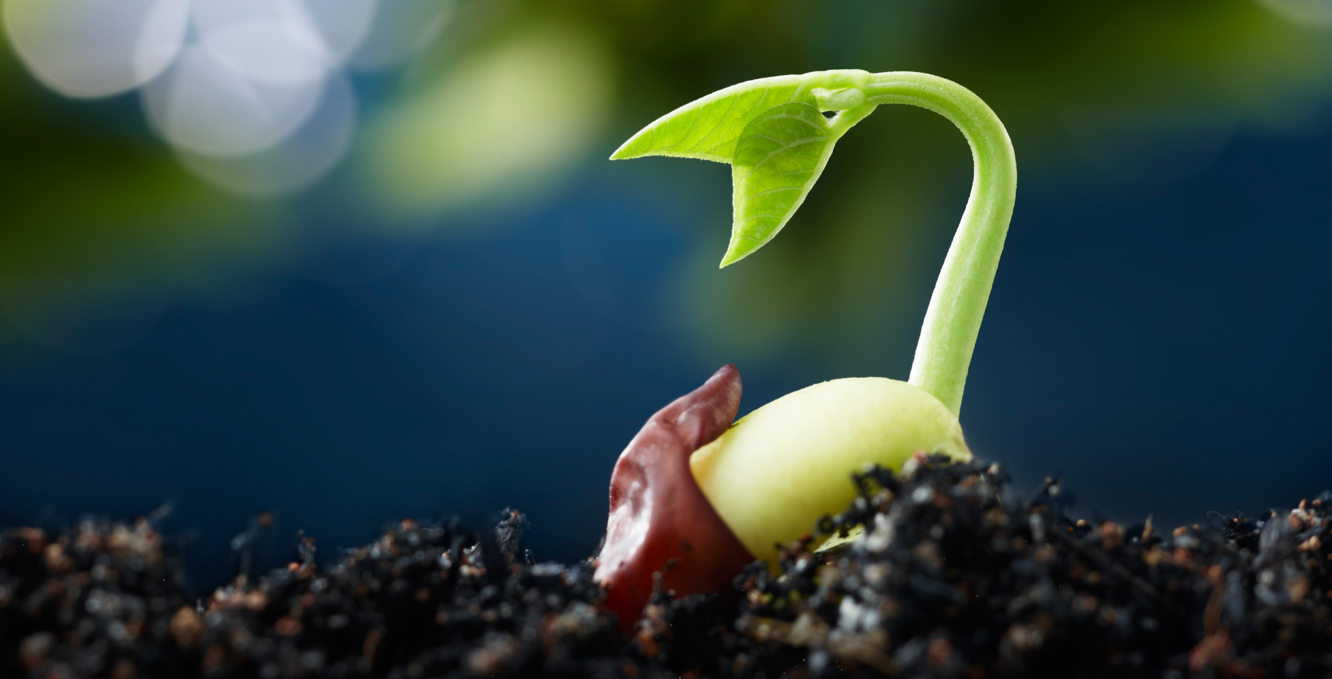 The U.S. Department of Agriculture (USDA) is committed to supporting the organic community and ensuring the integrity of organic products from seed to table.